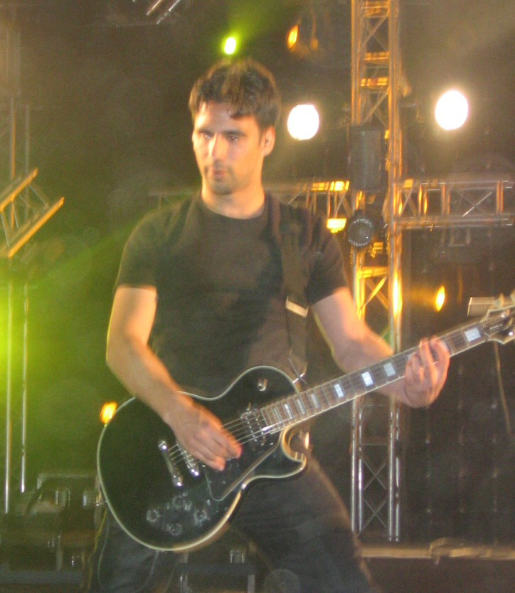 Ad Sluijter, one of the two guitarists of Epica, performing live at Tuska Open Air Metal Festival 2006.